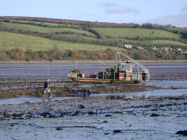 Oyster beds and boat, Teign estuary